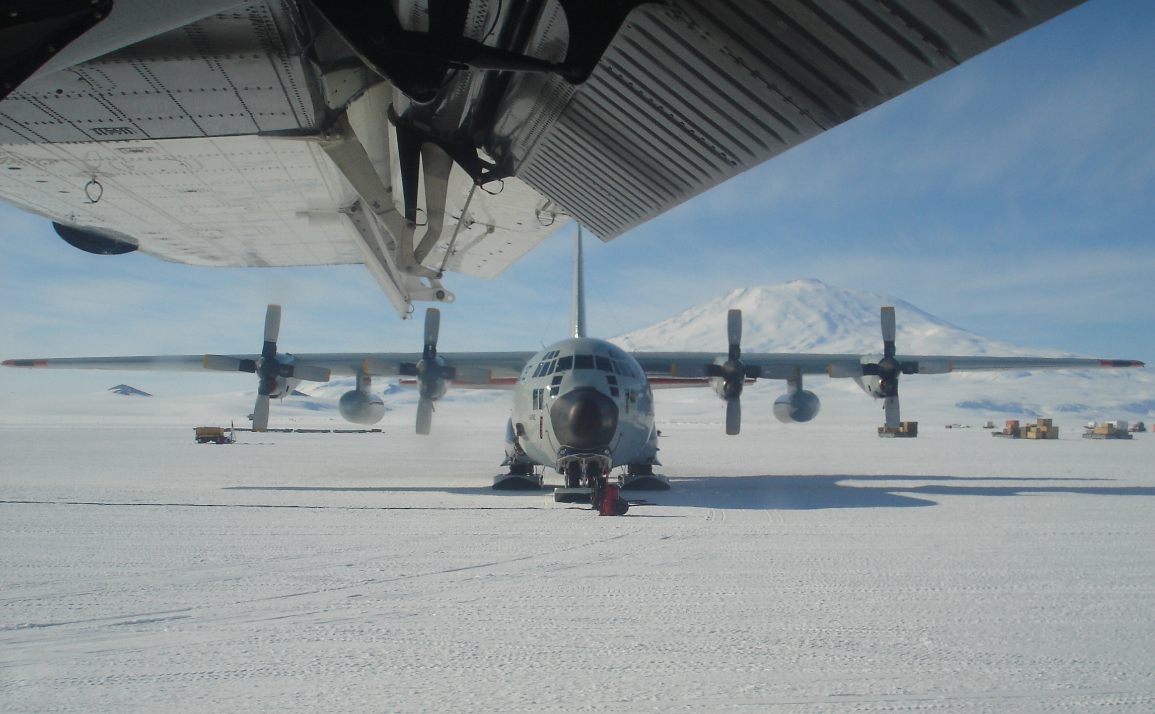 A United States Air Force Lockheed LC-130H-LM Hercules (s/n 83-0492) at Williams Field, Antarctica, 6 Jan 2006. Underwing of Twin-Otter aircraft in foreground, Mt Erebus volcano in background.